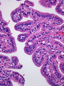 Photomicrograph of hematoxylin-eosin stained section of a choroid plexus papilloma (grade I WHO)at 400x magnification. Image taken using an Olympus Microscope and Analysis-Imaging Software on 10-24-2006 by Martin Hasselblatt MD